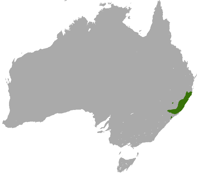 Red-necked Pademelon (Thylogale thetis) range